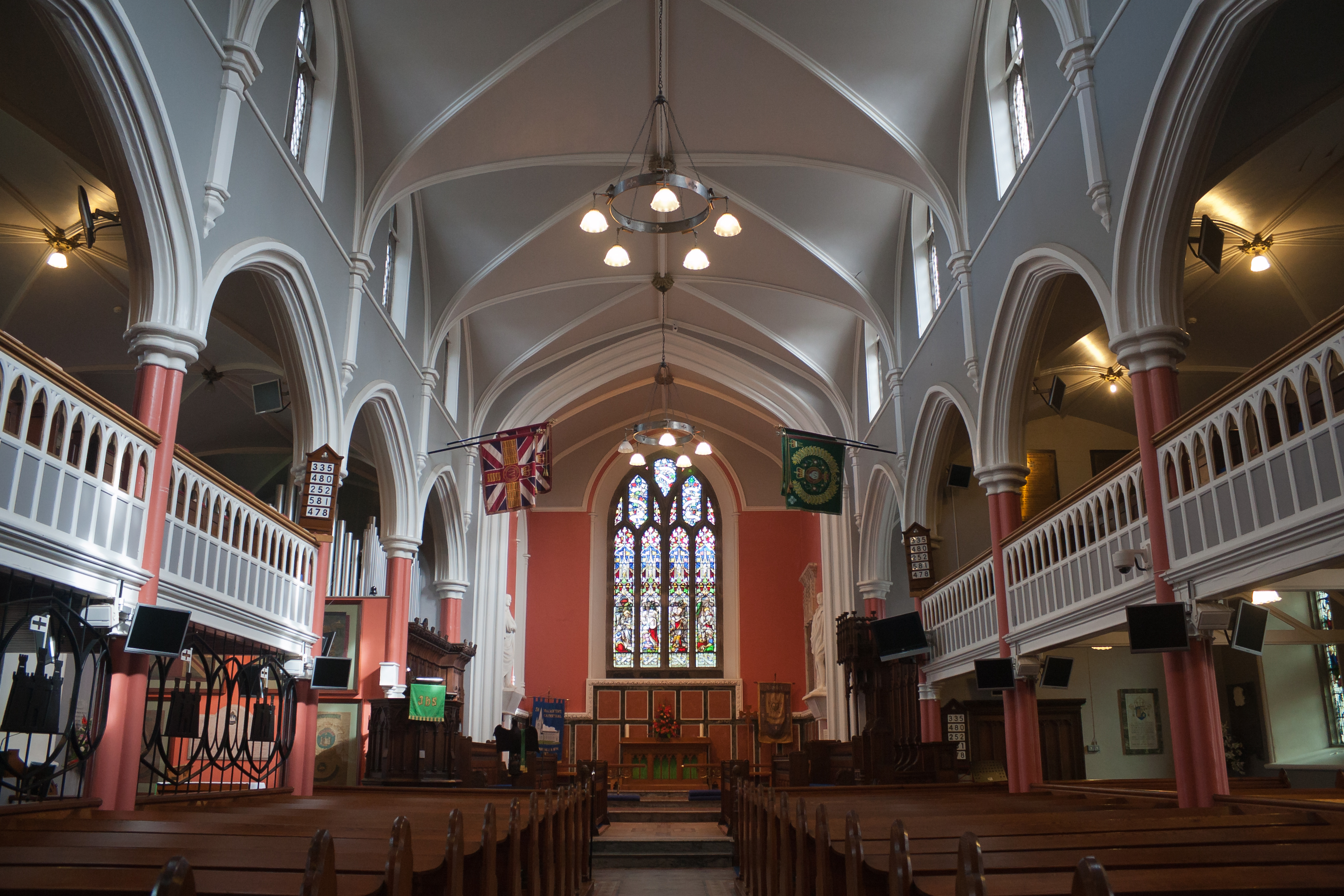 Interior of the cathedral, looking east.